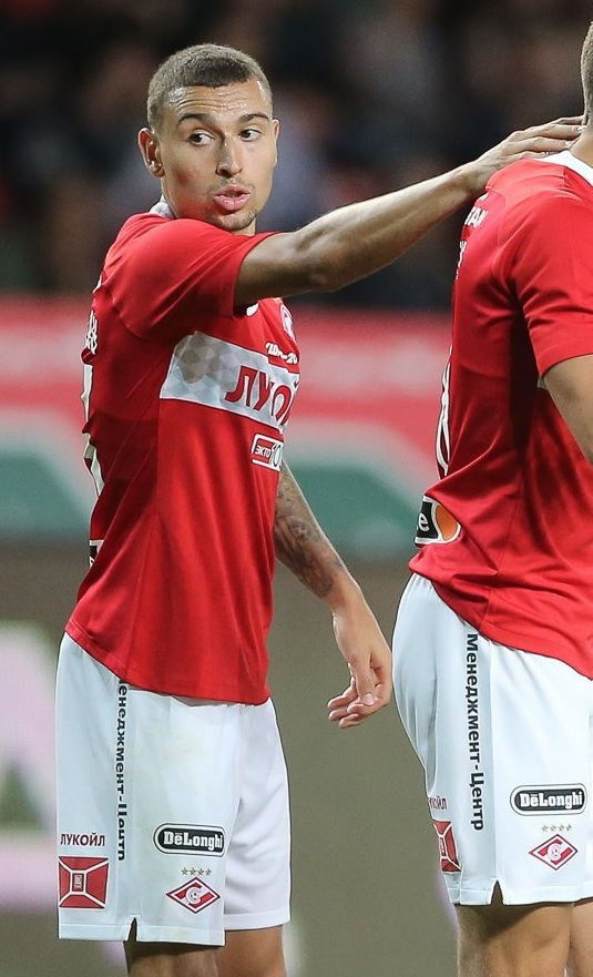 Jordan Larsson with FC Spartak Moscow in a game against FC Akhmat Grozny.